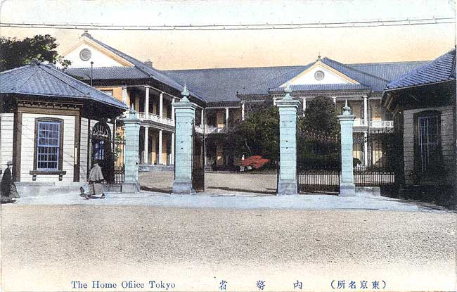 Commemorative postcard showing the Home Ministry, Tokyo